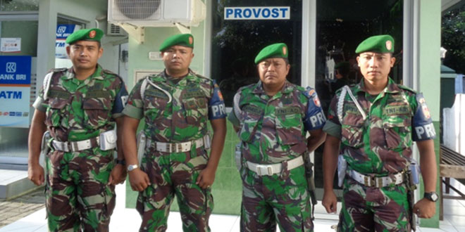 Indonesian army provosts stand guard